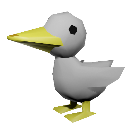 This is a rendered image of a low poly (220 polygons, 219 vertices) 3D model of a duck character I have created with Blender.